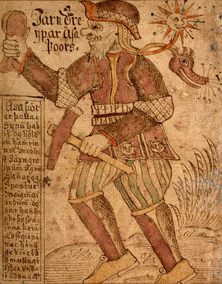 A Norse mythology image from the 18th century Icelandic manuscript "SÁM 66", now in the care of the Árni Magnússon Institute in Iceland.